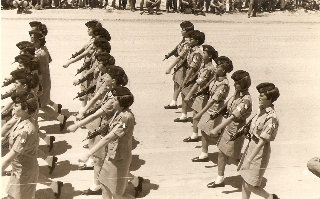 Recent lines IDF parade marching